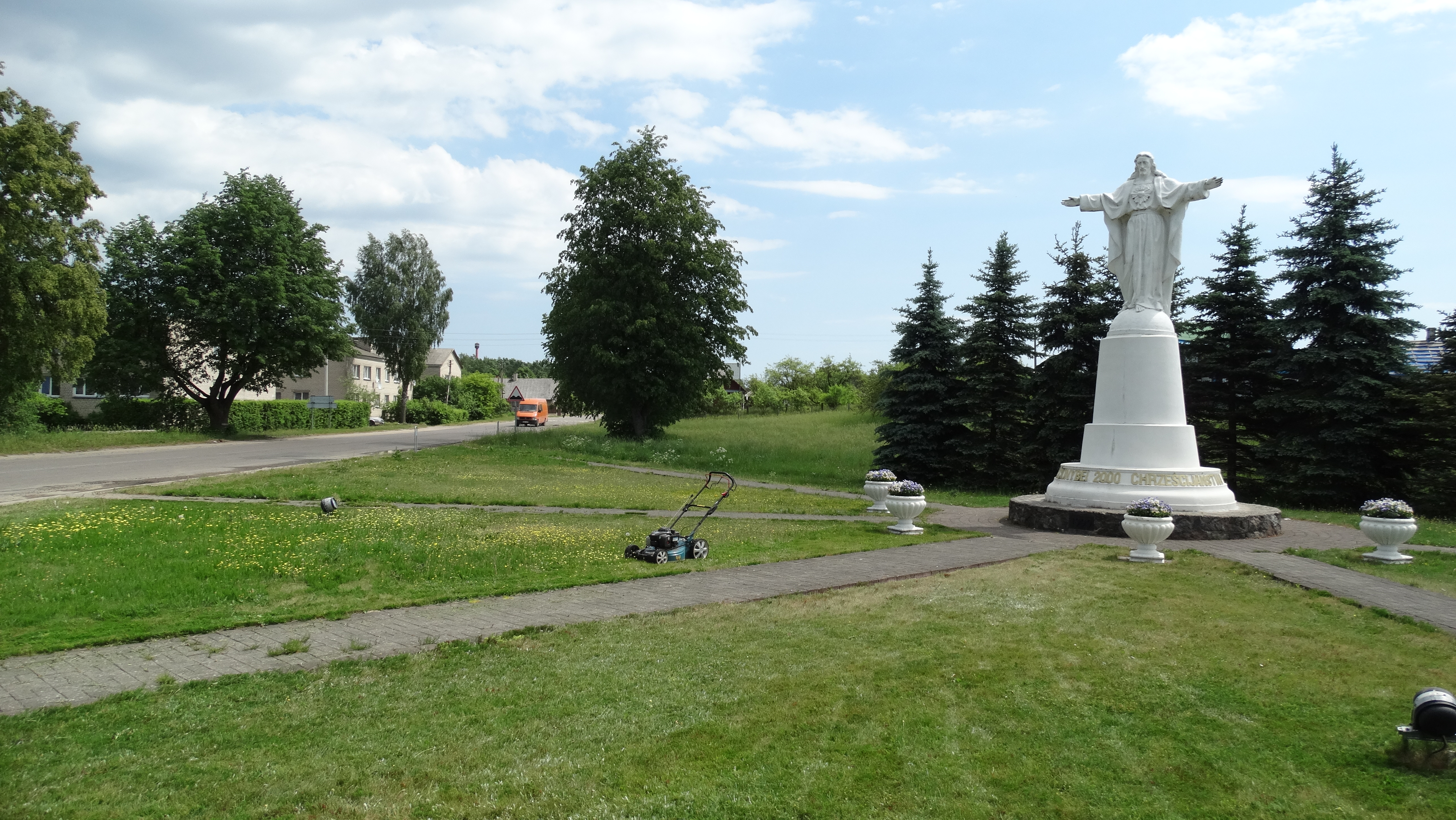 Rukainiai, Vilnius District, Lithuania